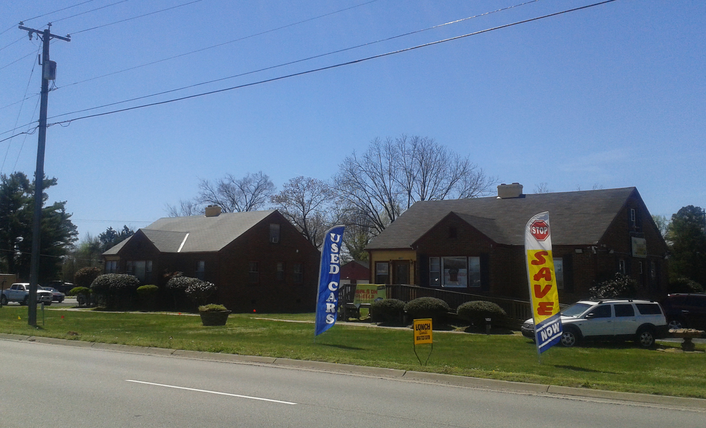 Structures in New Bohemia, Virginia